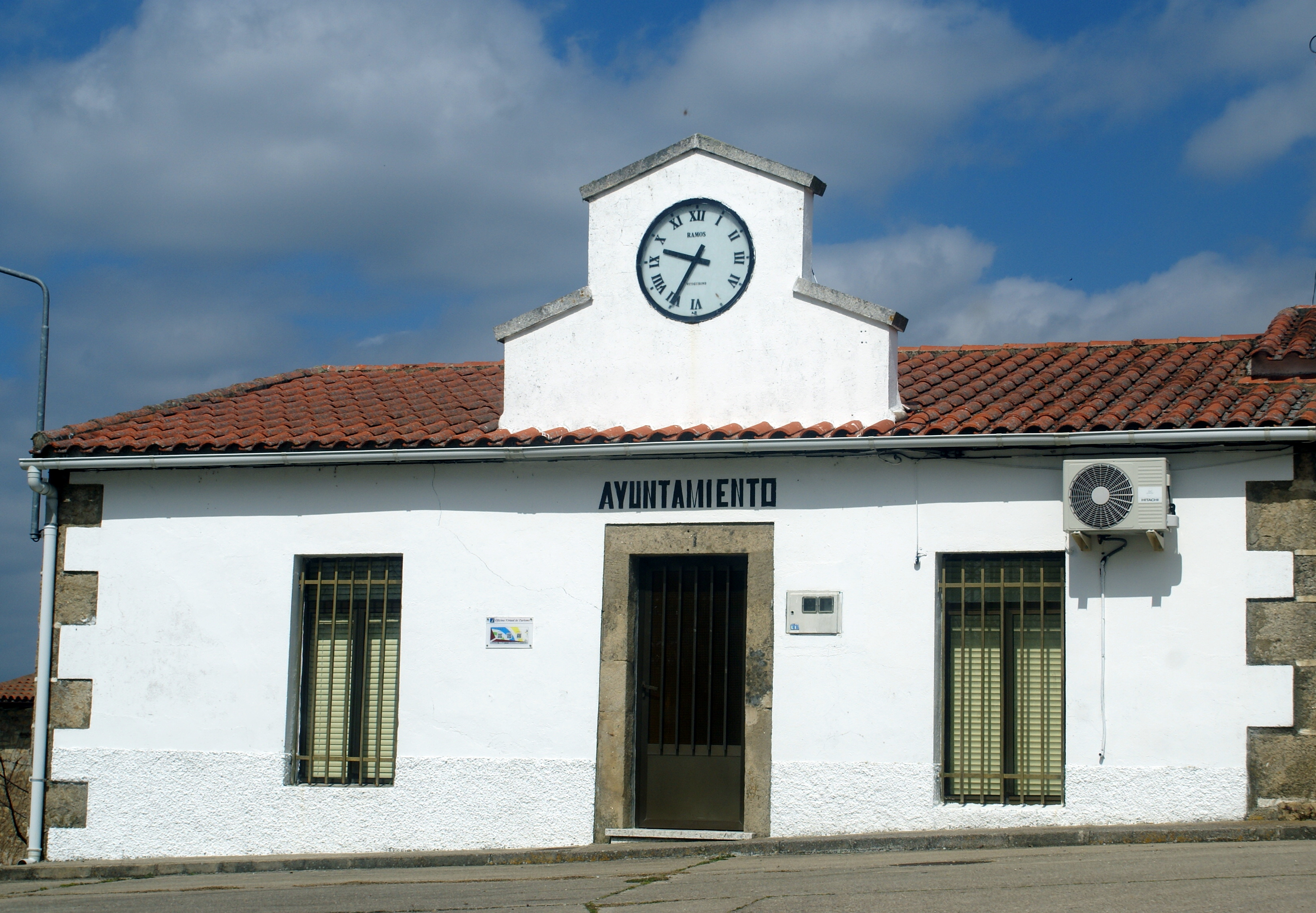 Town hall in Barceo, Salamanca, Spain.